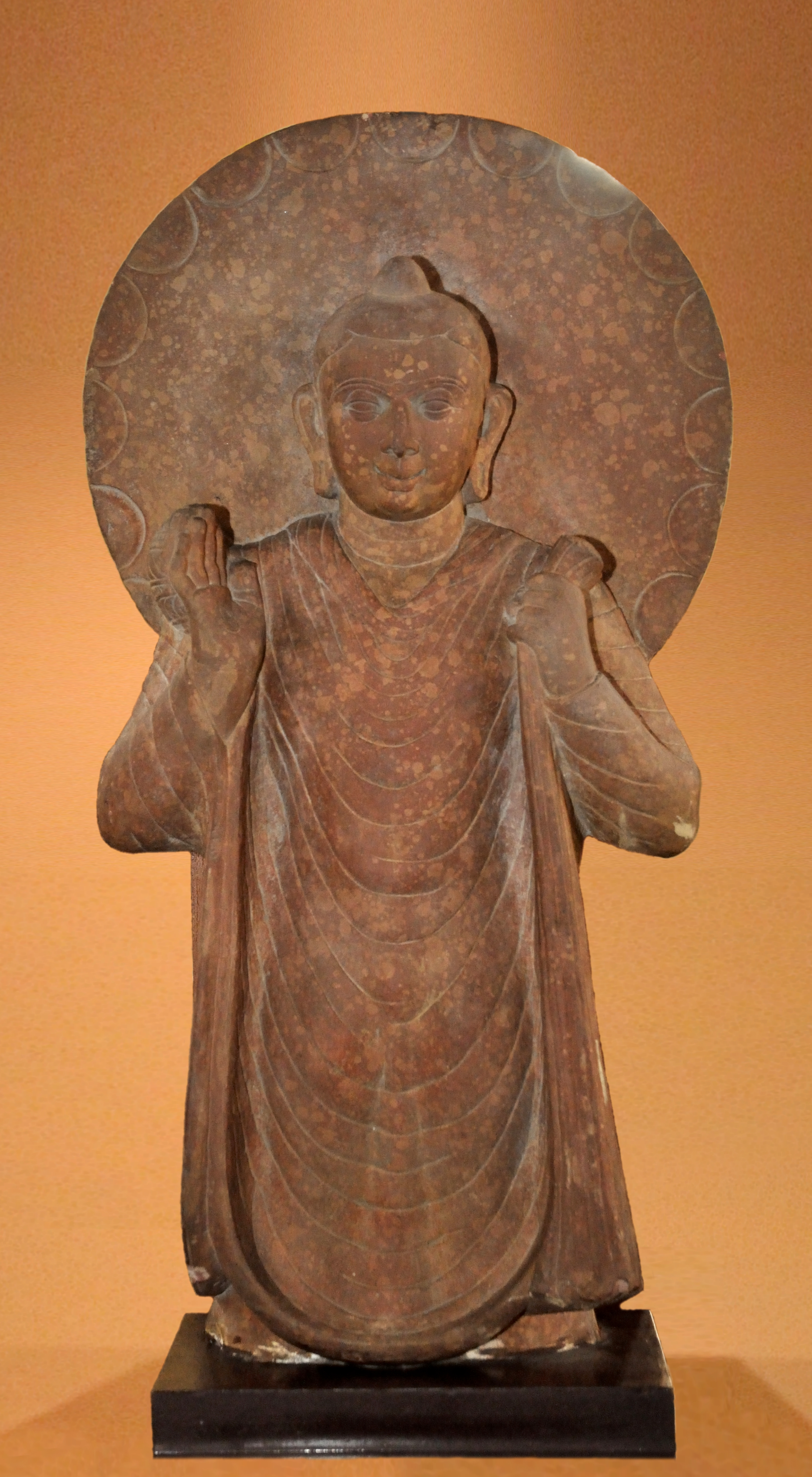 Buddha in Abhaya Mudra - Circa 2nd Century CE - ACCN 00-A-4 - Government Museum - Mathura